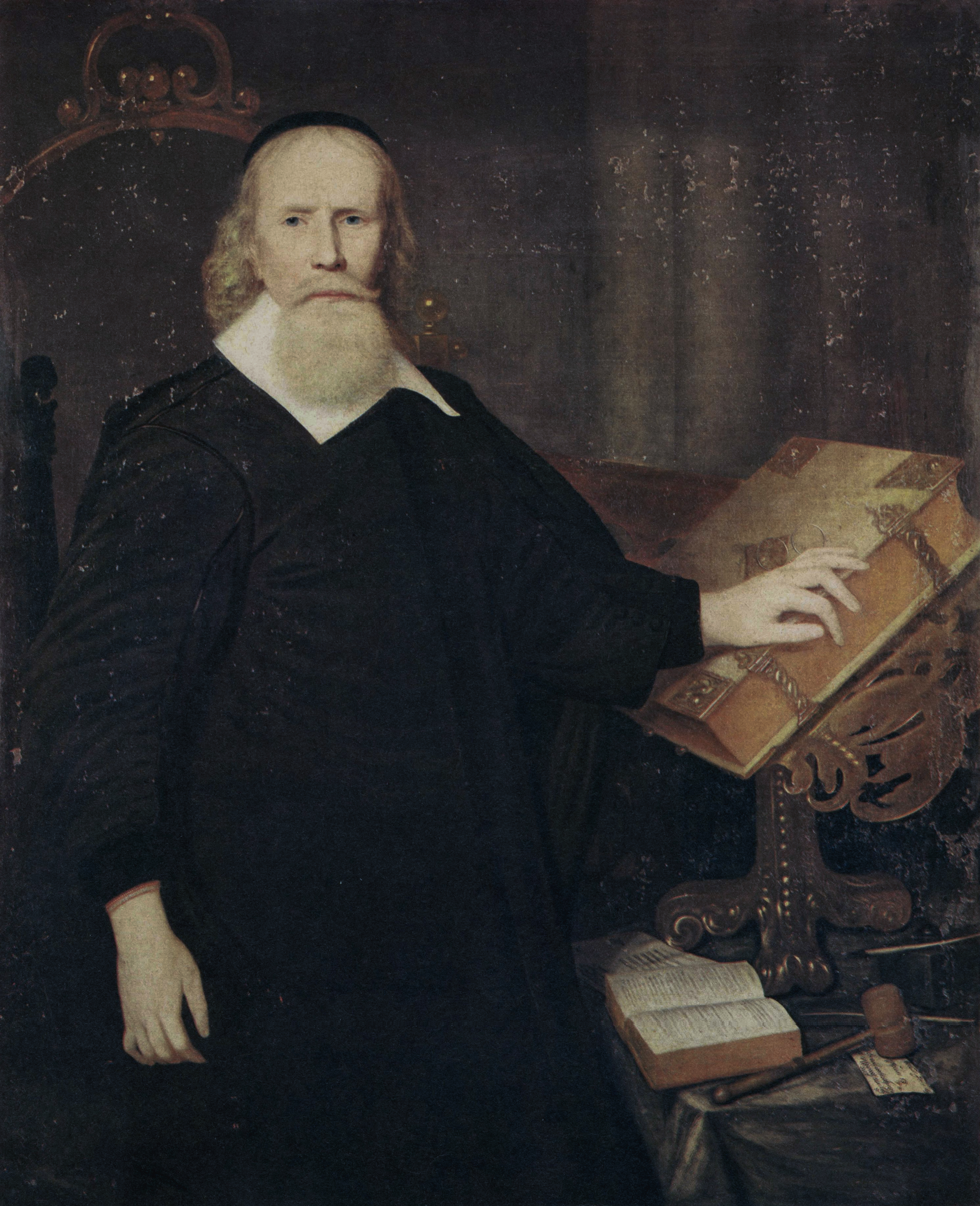 My copy of a photo of period painting of John Clarke now housed in the Redwood Library in Newport, Rhode Island. "The Redwood has in its possession a portrait believed to be Dr. Clarke, titled "Portrait of a Clergyman" done by Guilliam de Ville c. 1659." Clarke died in 1676 so the painting pre-dates that date.